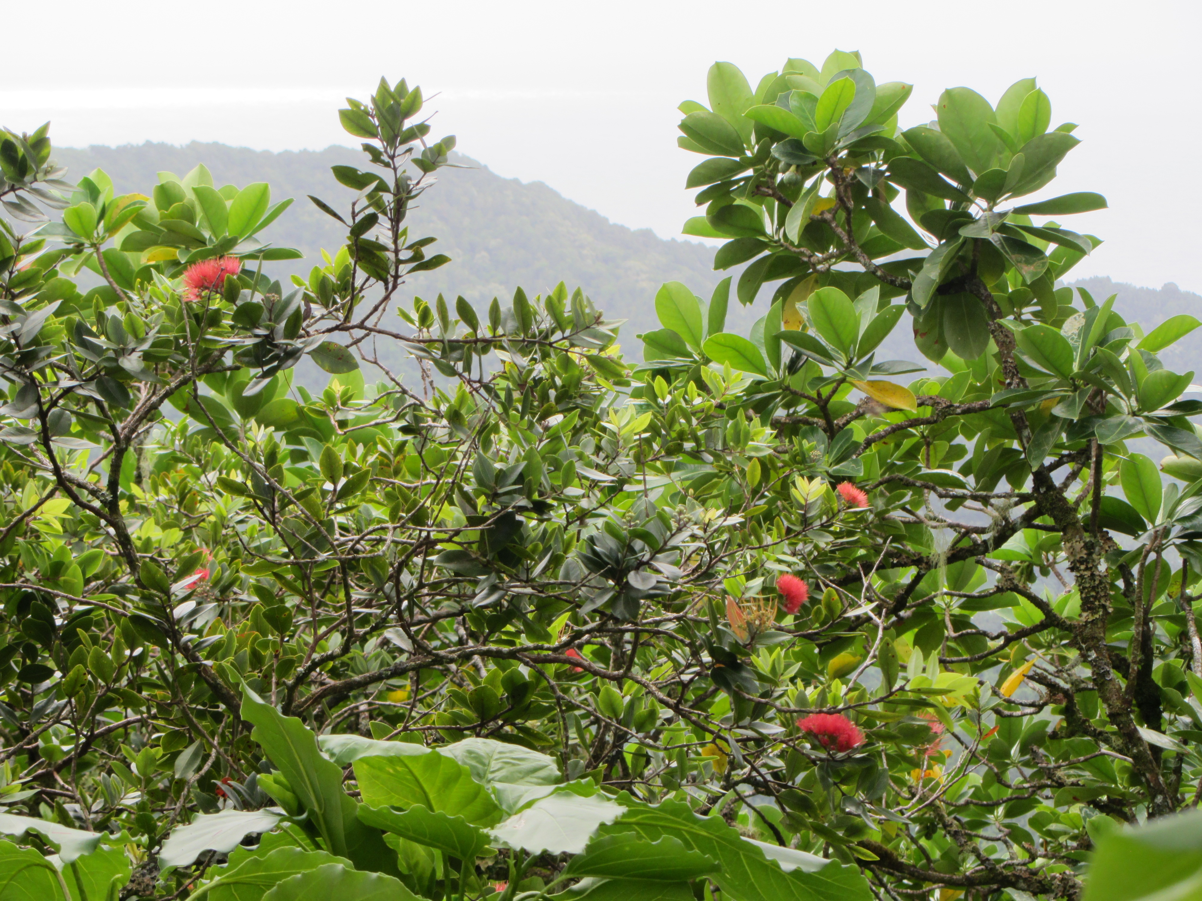 Metrosideros collina (Rata), native to Rarotonga and other Polynesian islands, and Fitchia speciosa, endemic to Rarotonga slope & cloud forests.